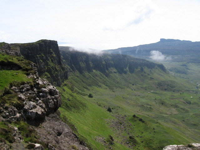 Sgorr an Fharaidh.